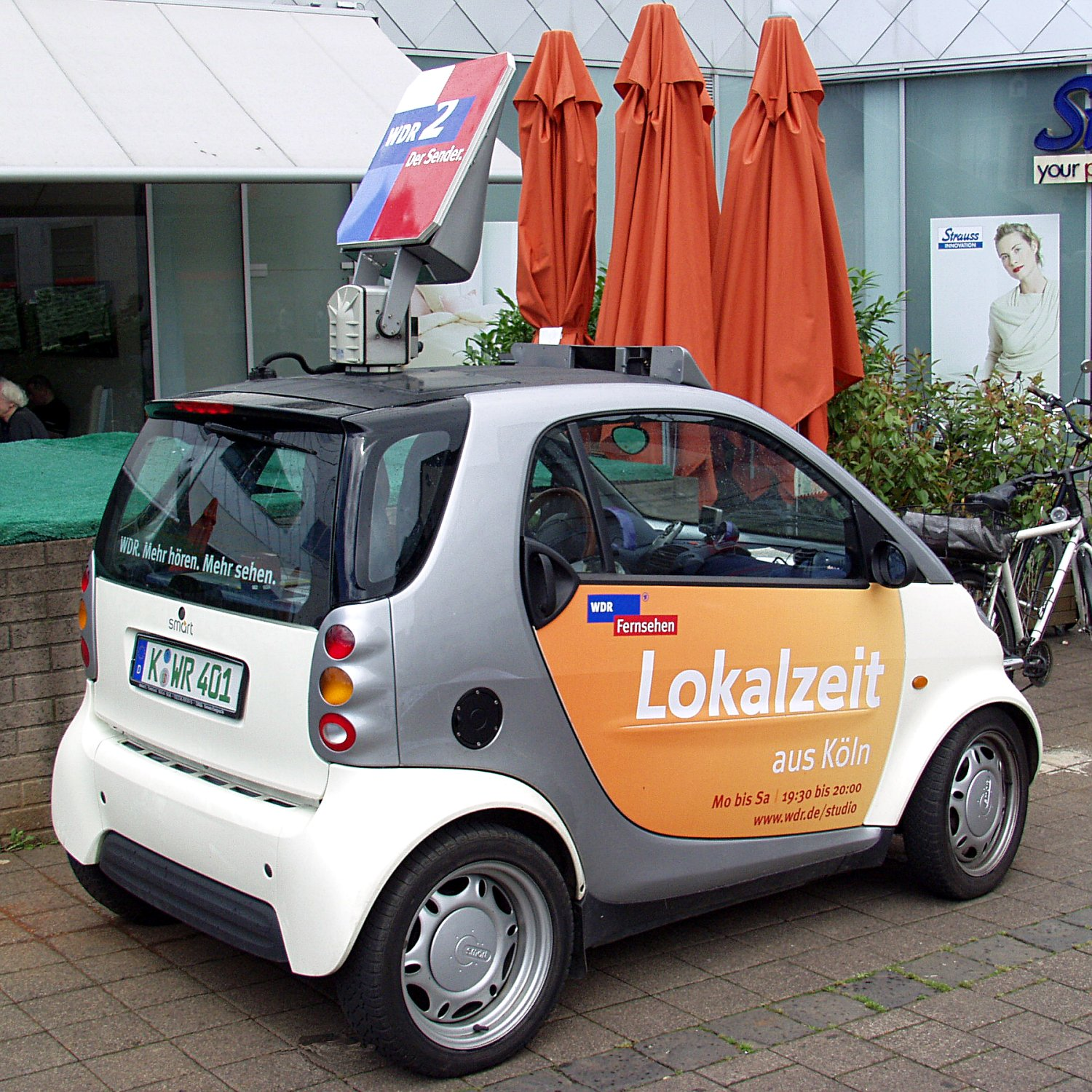 Outside broadcasting van, smart, Westdeutscher Rundrunk (WDR), on a demo in Cologne.